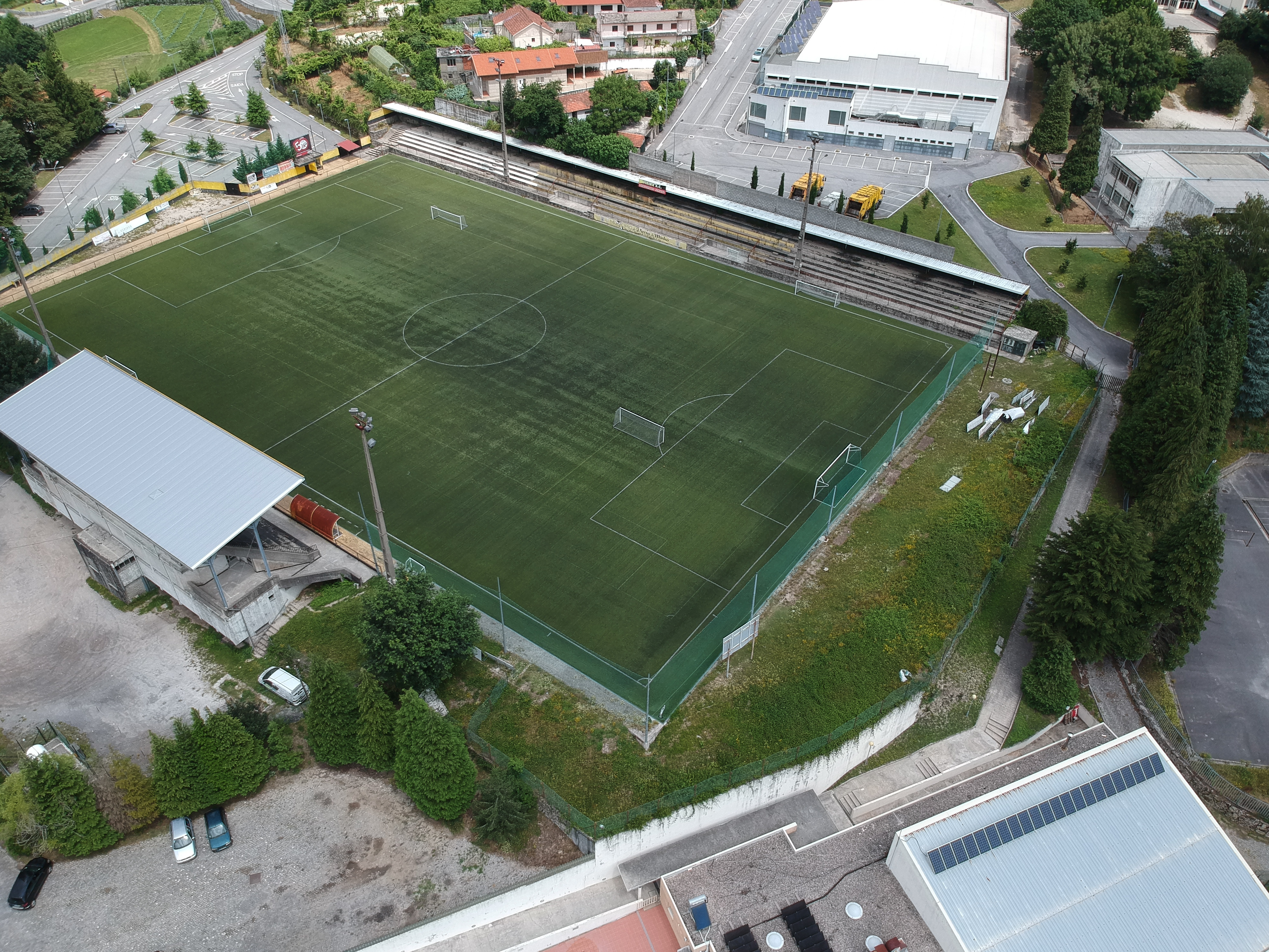 Vieira do Minho, Portugal in 2018.